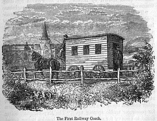 The Experiment - the first Railway carriage. This was delivered to the Stockton and Darlington Railway the day before the opening on 27th September 1835. George Stephenson had it built in Newcastle and it was used to convey the directors. The rest of the 600 passengers were conveyed in coal wagons provided with benches. After the opening. the Experiment was let to contractors who used it as a horse drawn carriage, starting 10th October 1825, covering the twelve miles between the two towns in two hours at a flat rate of one shilling. Passengers were allowed 14lbs of luggage free.